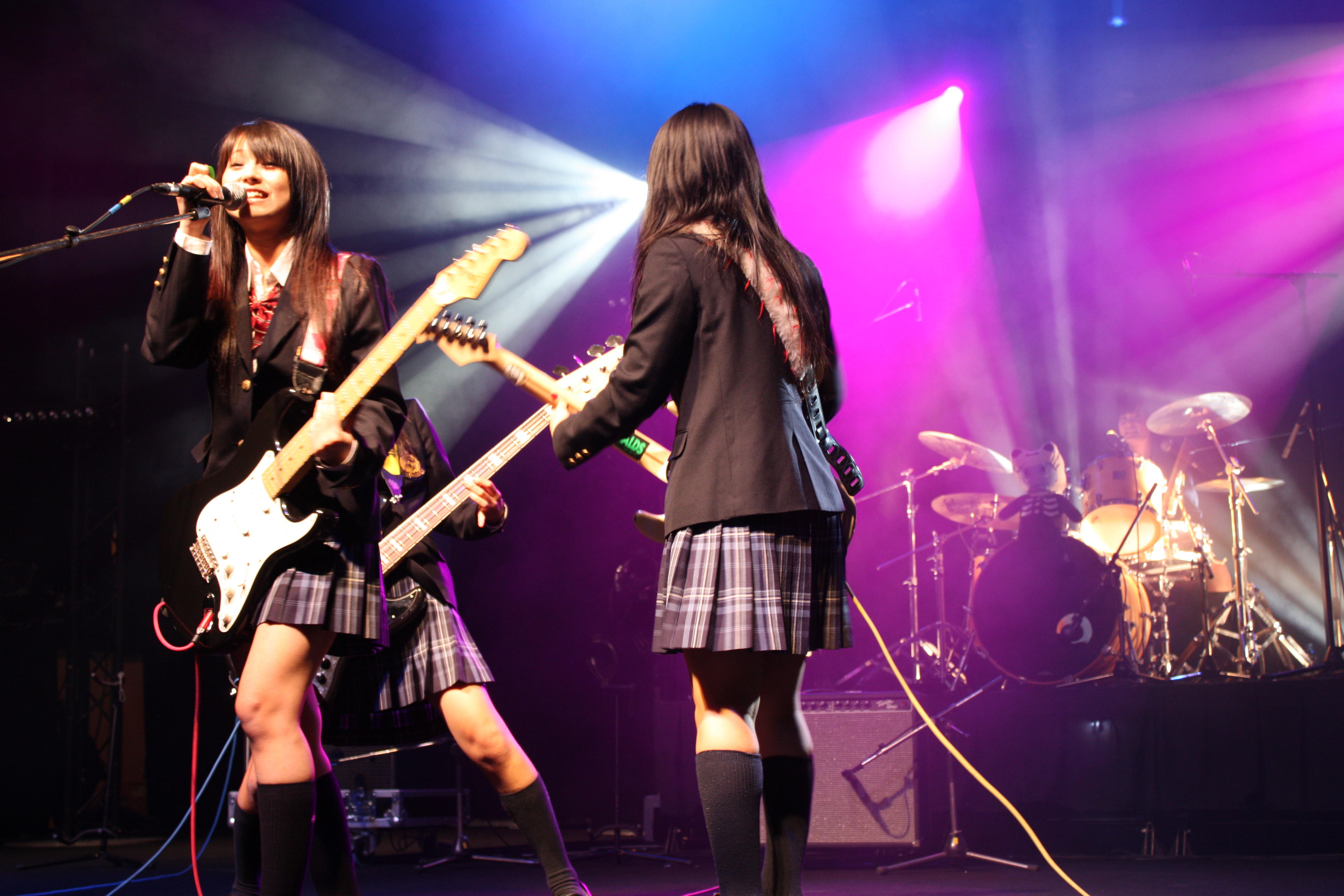 SCANDAL live at Japan Expo 2008 (Paris, France).